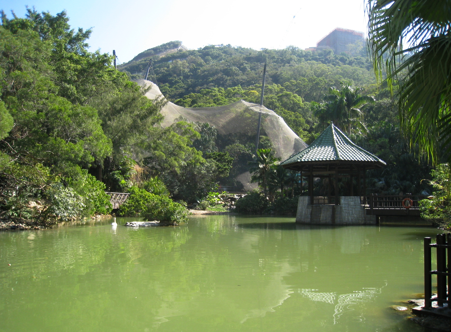 HK Ocean Park Bird Paradise 香港海洋公園雀烏天堂